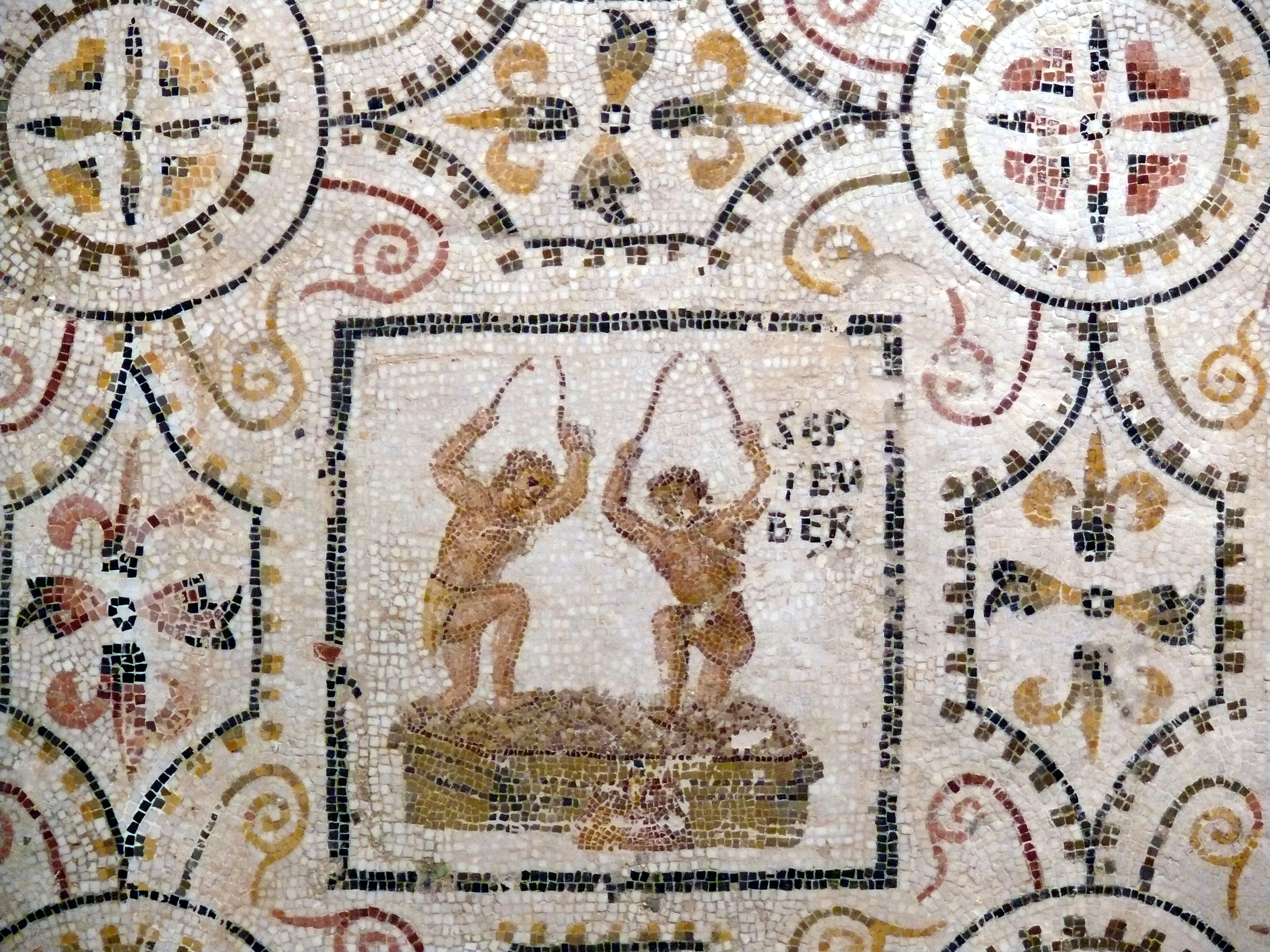 september, fragment of a mosaic with the months of the year, starting with the Roman first month March. First half third century El Jem Archeological Museum of Sousse